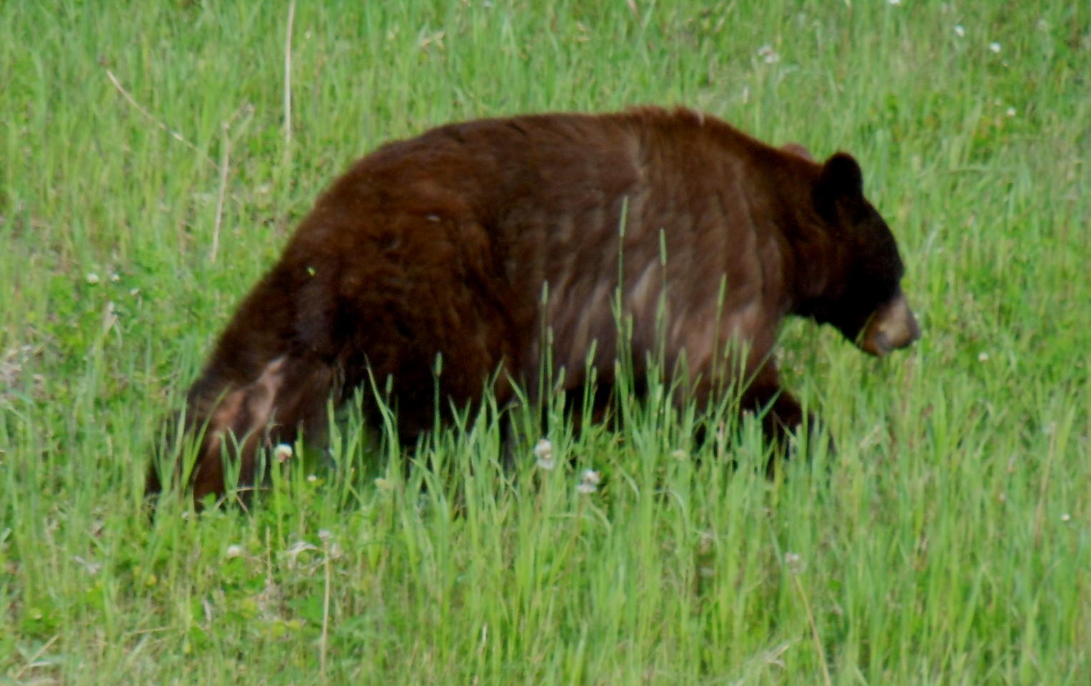 Made this encounter this past summer in Yukon Territory while driving between Teslin Lake and Rest Area on Liard River. Thought this picture of this cross between blackbear and grizzly is much better than those stuffed dusty animals shown on your 'Ursid hybrid' page.